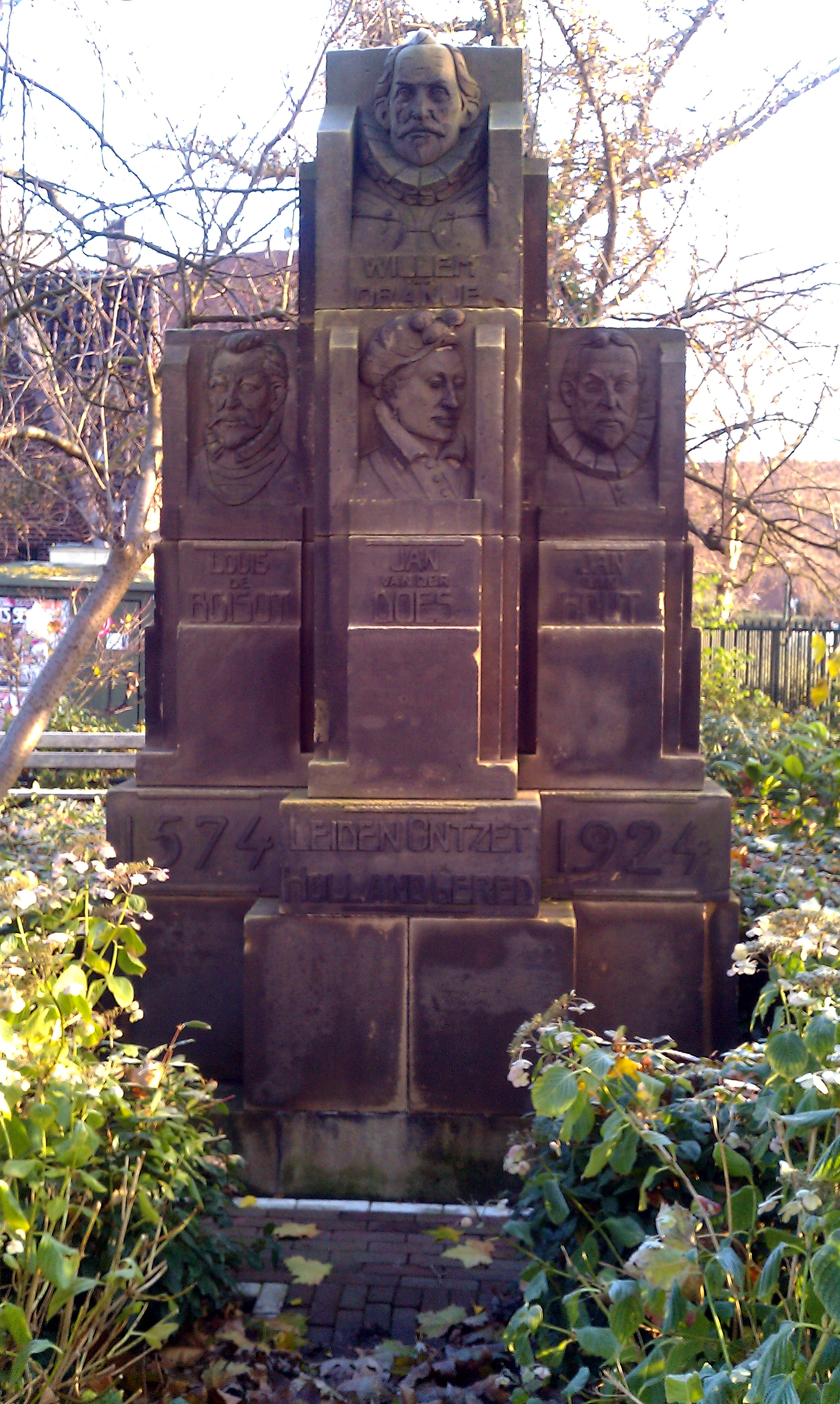 a monument in Leyden, in honour of the relieve of the siege of Leyden at 1574. The monument has been erected in 1924.